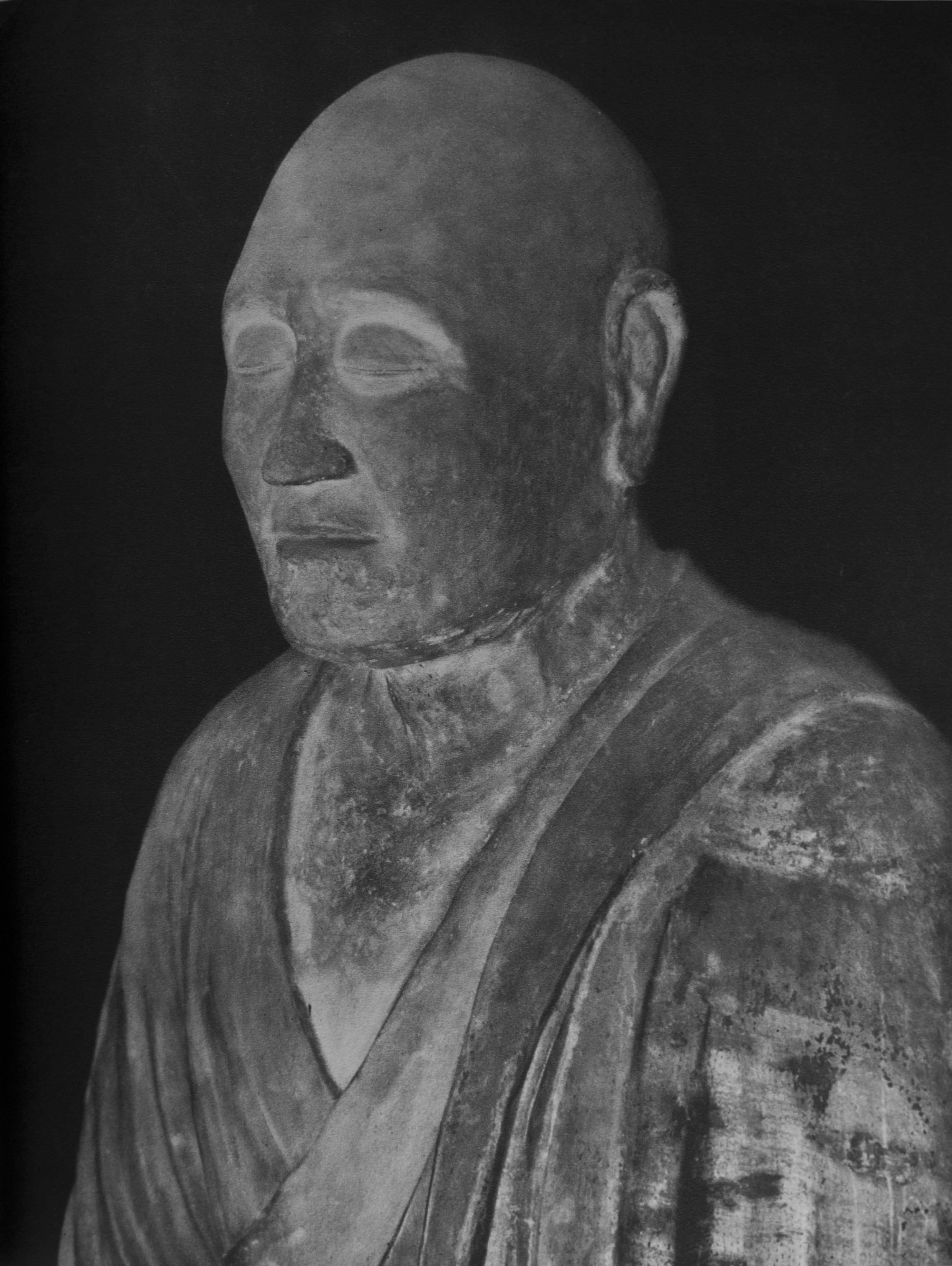 Toshodaiji, Nara, Japan